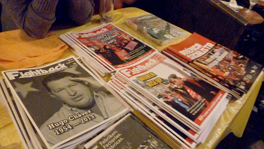 Publications about socialism and Hugo Chávez at a Bolivarian Circle gathering in Canada.